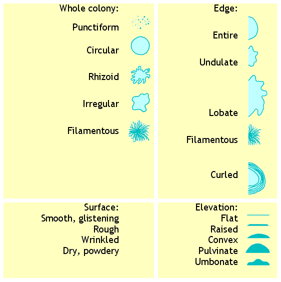 Adapted and redrawn from Seeley, HW & Vandemark, PJ (1962) Microbes In Action: A laboratory manual of microbiology. WH Freeman (San Francisco, London)